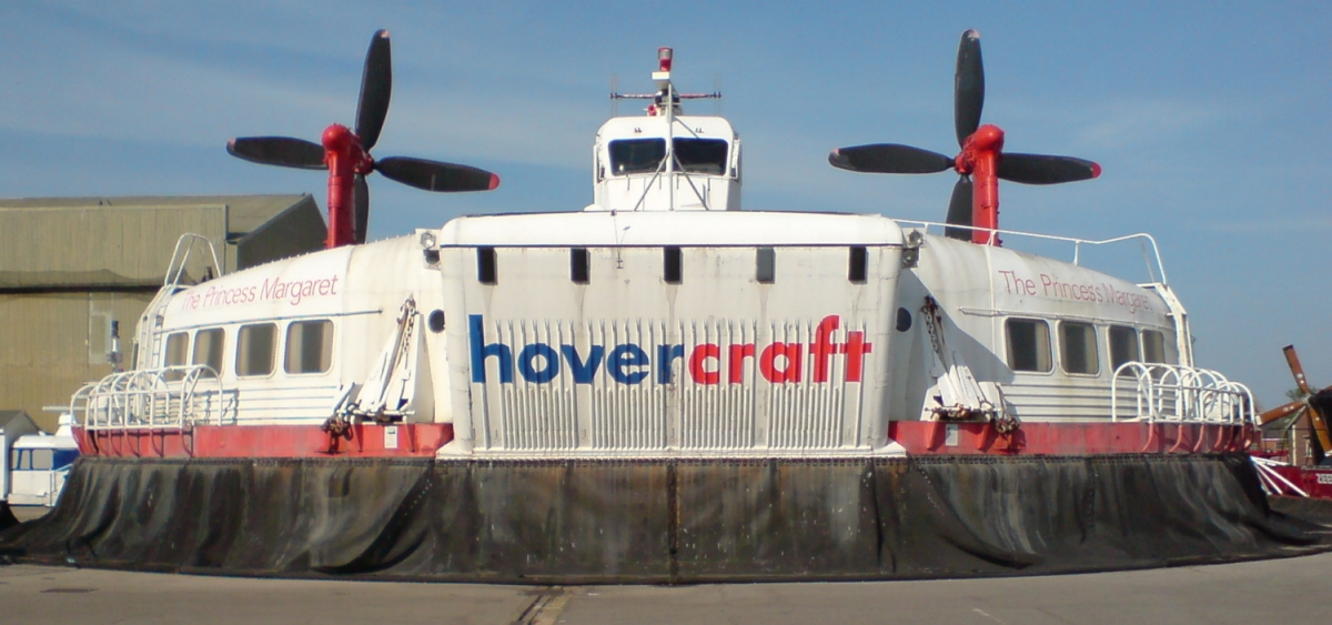 Photo of The Princess Margaret, an SR-N4 hovercraft, at the Hovercraft Museum at Lee on the Solent, England.